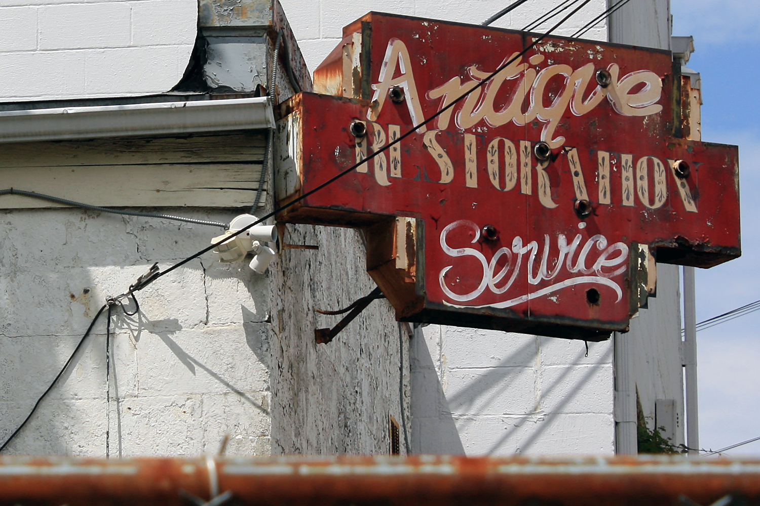 Alley off Georgia Avenue in the Petworth neighborhood of Washington DC, 26july09